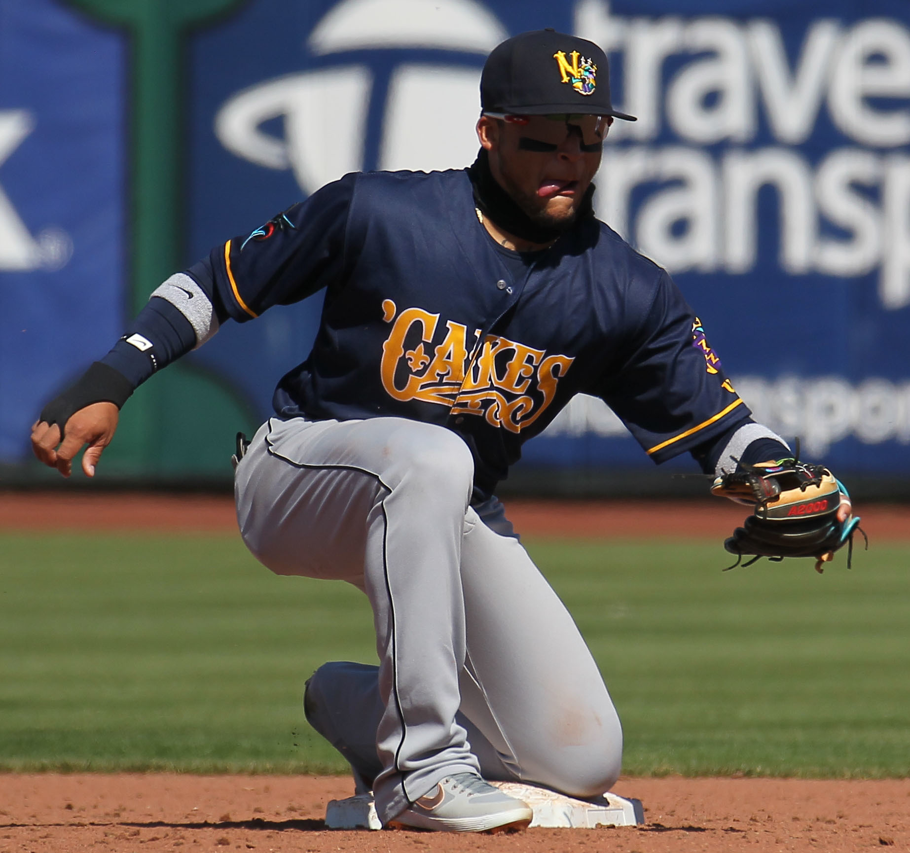 Isan Diaz with the New Orleans Baby Cakes during a 2019 game at Werner Park in Nebraska.